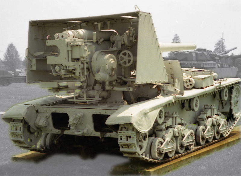 Semovente da 90/53 on display at the US Army Ordnance Museum at Aberdeen. The picture taken in 2000.